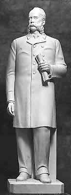 statue of Joseph Ward